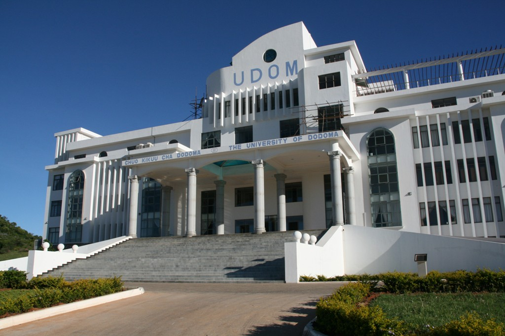 University of Dodoma - Admin Building